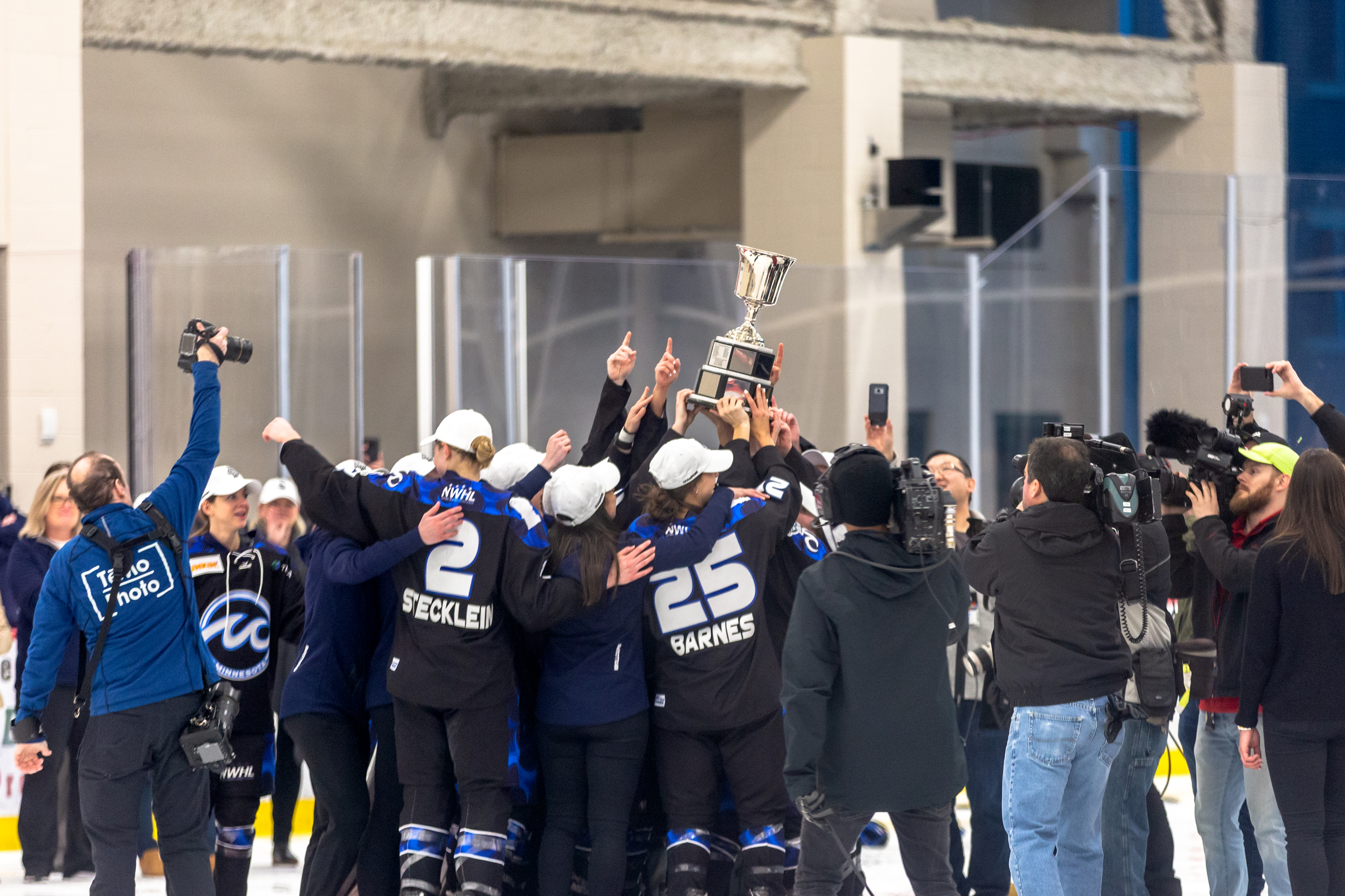 In their final game of the season, the Minnesota Whitecaps won in overtime to beat the Buffalo Beauts 2-1 and to capture the Isobel Cup for the 2018-19 inaugural season of the National Women’s Hockey League.